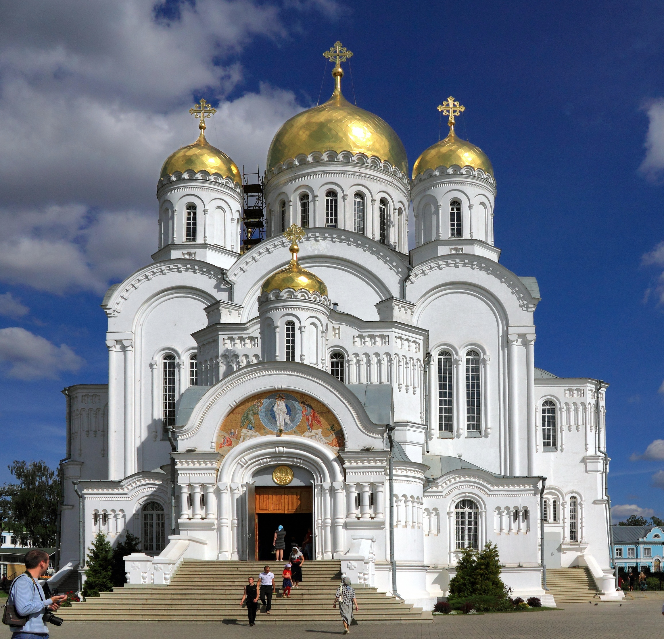 Diveyevo. Serafimo-Diveevsky Monastery. The Transfiguration Cathedral